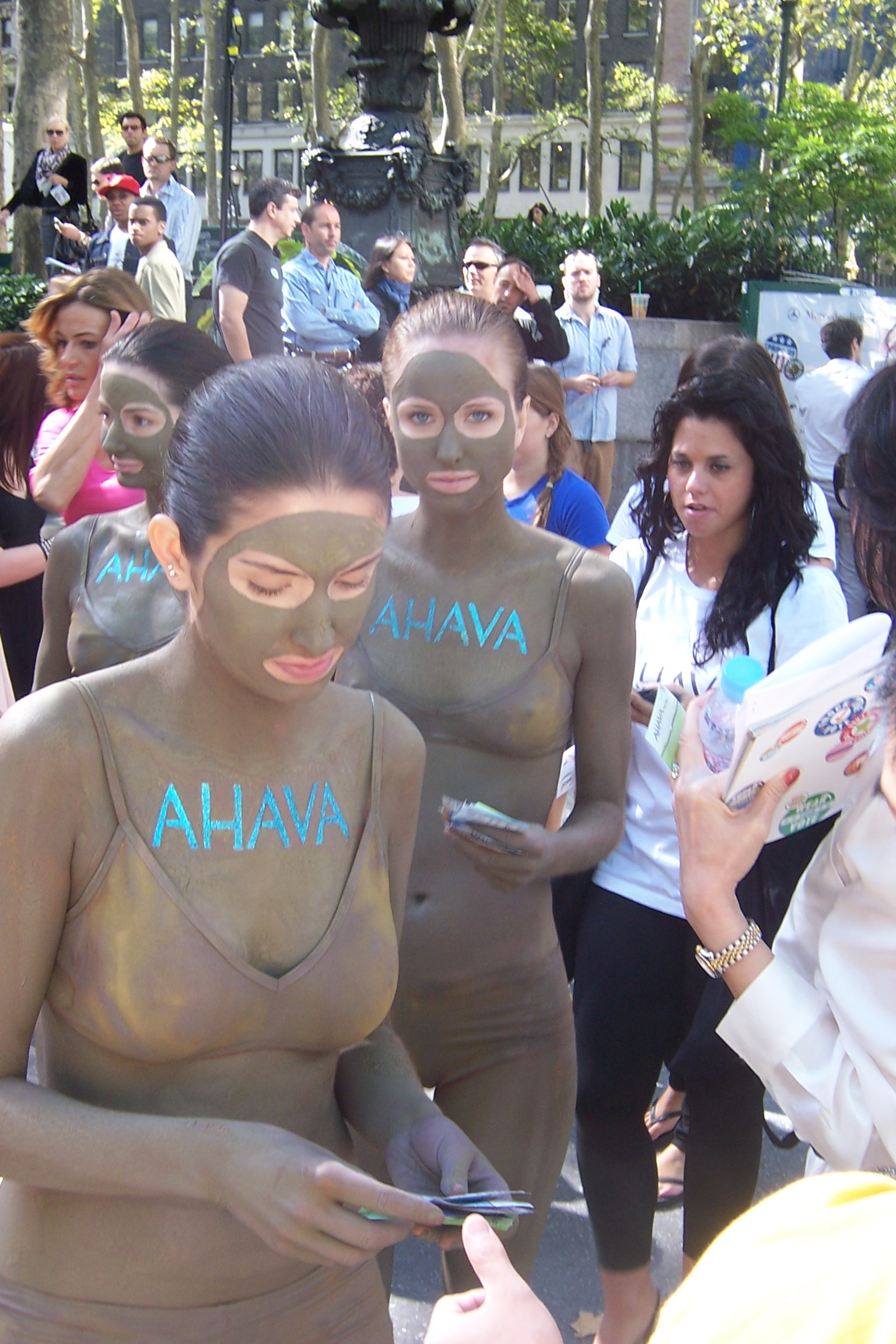 Models promoting Ahava's skin care products, by both wearing them and handing out samples of them, at the Spring 2009 New York Fashion Week